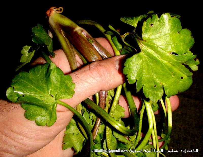 نبات برّي سوري يؤكل